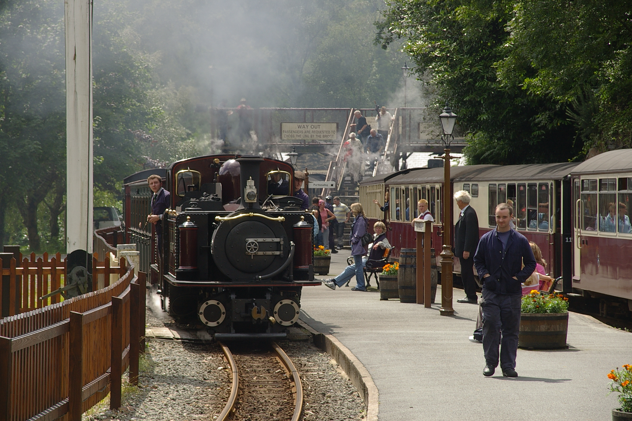 Ffestiniog Railway locomotive Merddin Emrys arrives at Tan-y-Bwlch railway station.